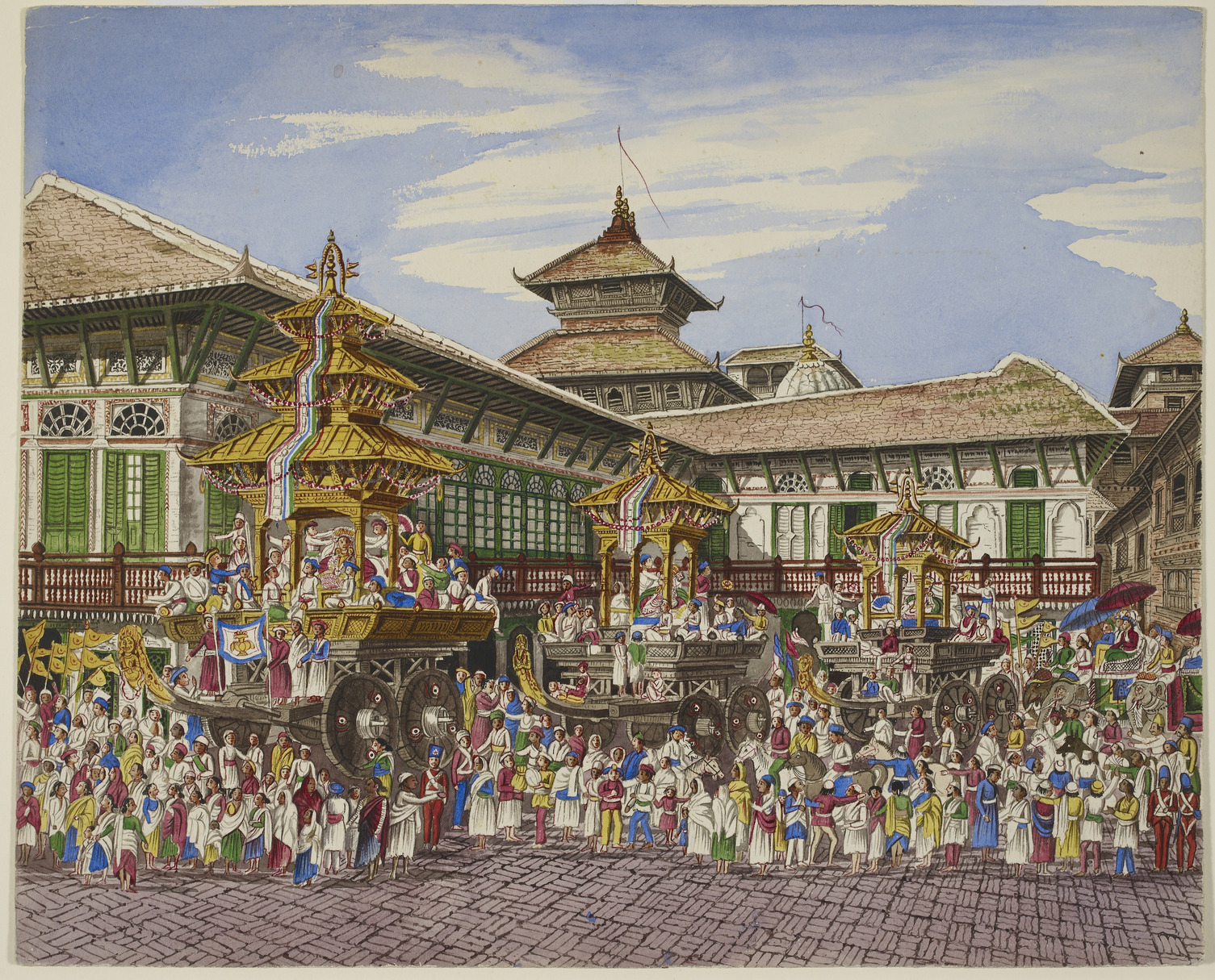 The Kumari jatra. Three temple cars outside the Hanuman Dhoka, or Old Palace, Kathmandu.